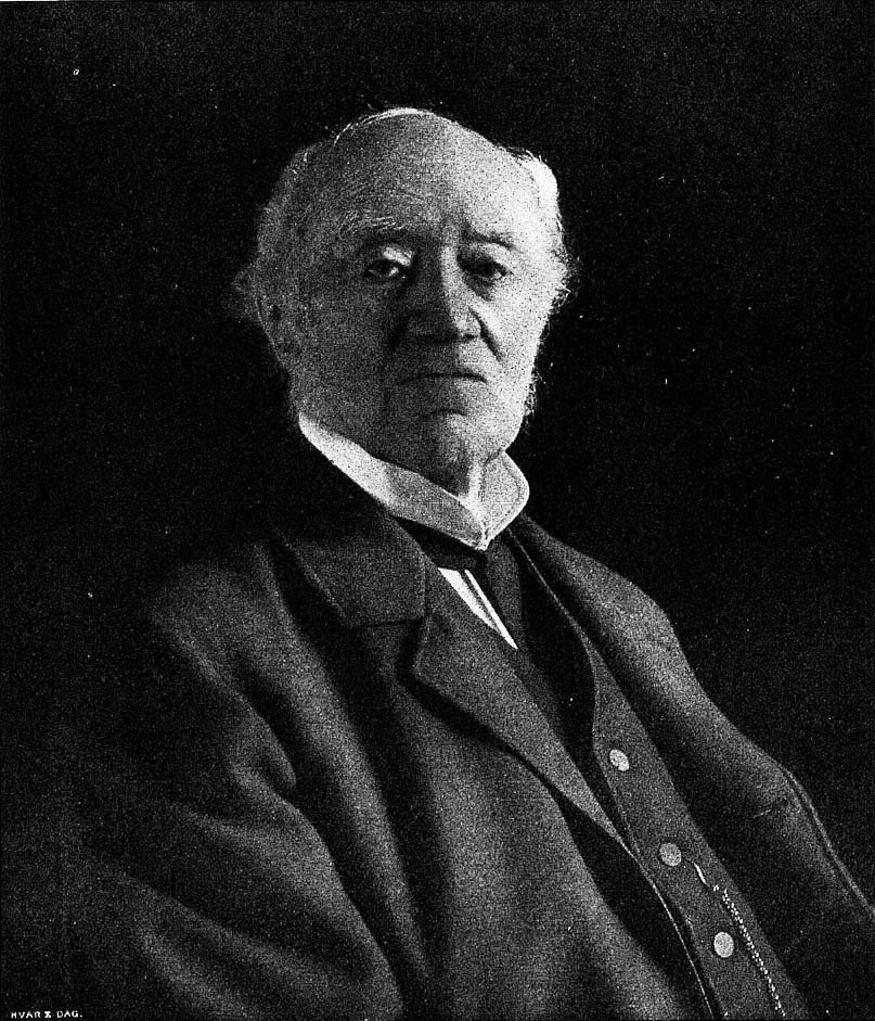 Swedish professor in zoology, Vilhelm Lilljeborg (1816-1908).